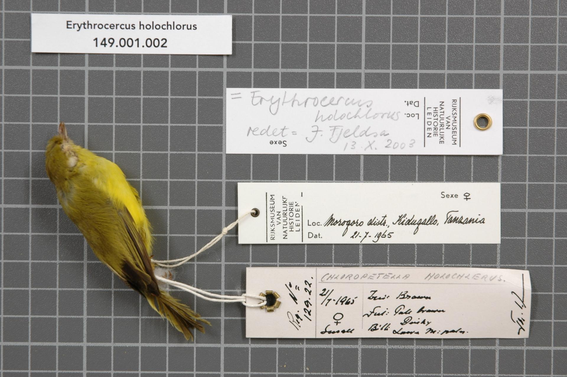 Erythrocercus holochlorus Erlanger, 1901